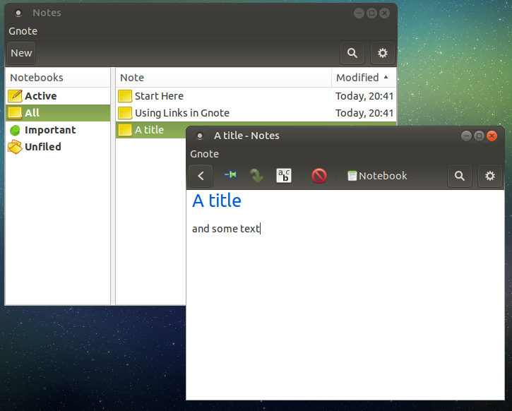 A screenshot of Gnote 3.10.3 running under Ubuntu MATE